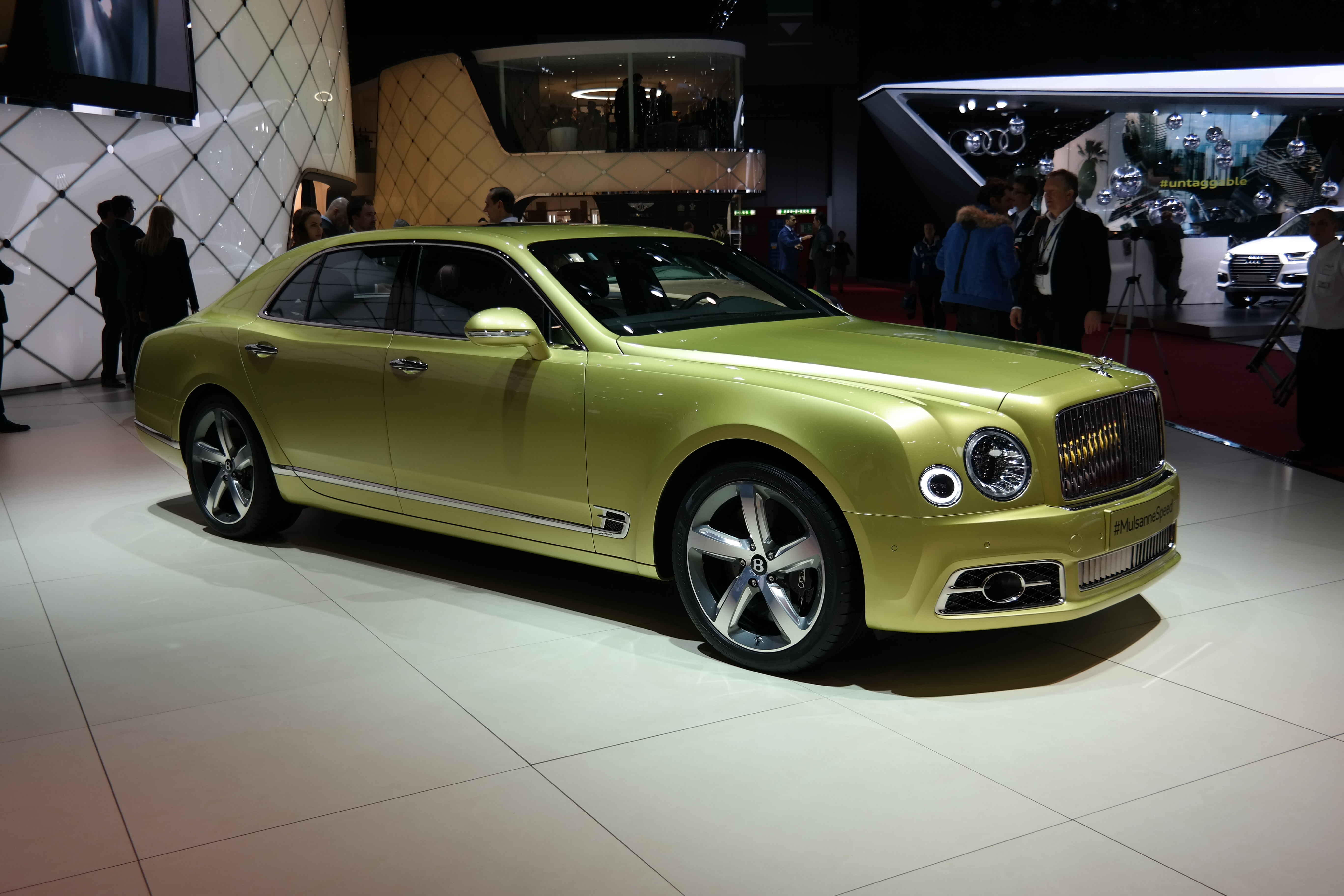 Geneva Motor Show 2016 (photo taken on the first press day)